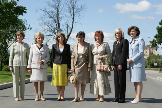 Spouses of G8 leaders pose for a photograph at Konstantinvosky Palace in Strelna, Russia, Sunday, July 16, 2006. From left, they are: Laura Bush; Bernadette Chirac, wife of French President Jacques Chirac; Sousa Uva Barroso, wife of European Commission President Jose Manuel Barroso; Flavia Franzoni, wife of Italian Prime Minister Romano Prodi, Lyudmila Putina, wife of Russian President Vladimir Putin; Laureen Harper, wife of Canadian Prime Minister Stephen Harper; and Cherie Booth, wife of United Kingdom Prime Minister Tony Blair. White House photo by Shealah Craighead Source: The White House